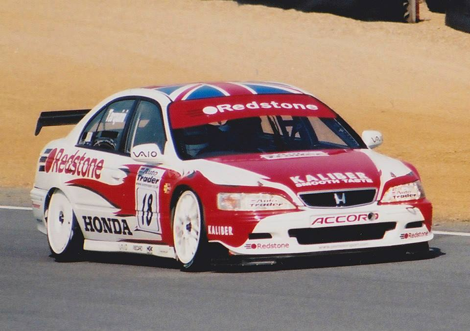 BTCC 2000 Tarquini Honda Accord at Brands Hatch